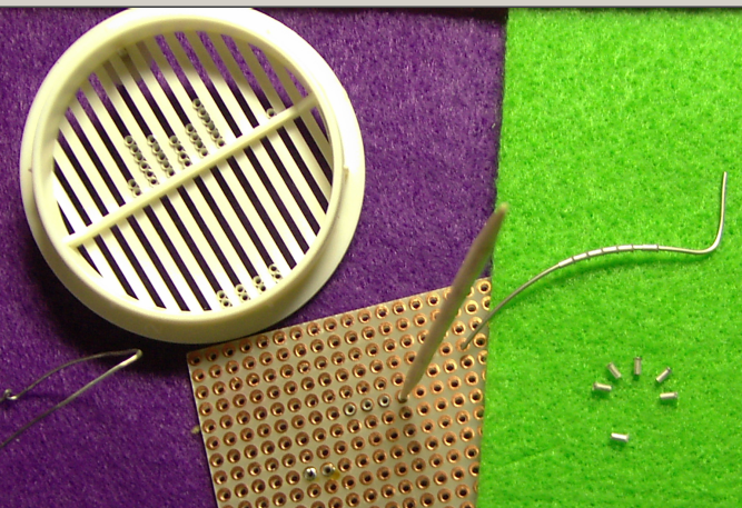 The making of physical contacts between the two layers of a printed-circuit board is generally performed by a chemical process finally resulting in a plated through hole, which makes the electrical contact and is able to embed the parts pin without need to solder at both sides of the PCB. For purposes of repairing a PCB, or to produce one in a DIY setting, or as a rapid in-house prototype, the traditional hollow rivet is a fair choice, and this is my product to describe and to promote. The tubular hollow rivets need not to be pressed with special equipment, simply, they will be inserted from the upper layer, their heads will be soldered and on the lower side, the rivet's unmodified straight part, part's pin and the soldering point will be connected by the soldering. A small "sieve" will make rivets stand in one direction, so you can pick them up onto simple wires to use as inserting instruments. Pre-fabricate a couple of wires holding about 20 rivets each. The rivet will be inserted, so the head stands off 0.5 mm from the PCB; 0.6 mm soldering wire is used, a toothpick (is a good choice, self-standing in the rivet's hole) prevents unwanted filling, and, in the immediate next step while the applied tin is hot, you will push in the rivet to 0.1 mm from the PCB. After all rivets have been inserted and their heads have been fixed with soldering, the electronic parts will be inserted. On the lower side, pin, rivet and soldering-pad will be amalgamated. The actual rivets have 1.4 mm heads and an 0.8 mm inner diameter so they are suited for ICs and smaller discrete items. The head of the rivets is designed to be a countersunk screw - this make spilling solder into the hole less probable and makes inserting multi-pin items easy.